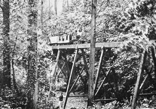 Viaduct on Duffield Bank Ralway, Derbyshire